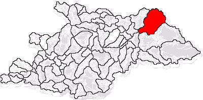 Map of Poienile de sub Munte commune in Maramureş County Romania